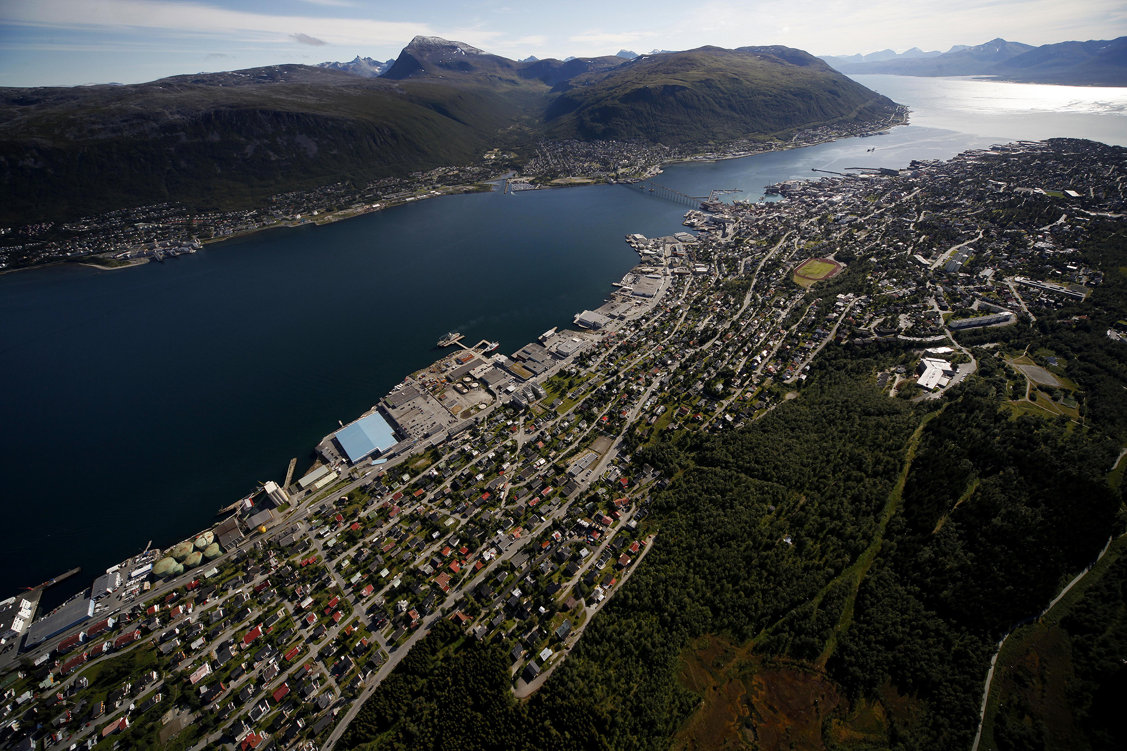 Tromsøysundet in Tromsø, Norway, with the city center to the right (west) of the bridge. Bildet kan fritt lastes ned. Vennligst krediter fotograf. --- This image may be downloaded for commercial and non-commercial use. Please credit the photographer. Foto / Photo Credit: Yngve Olsen Sæbbe.